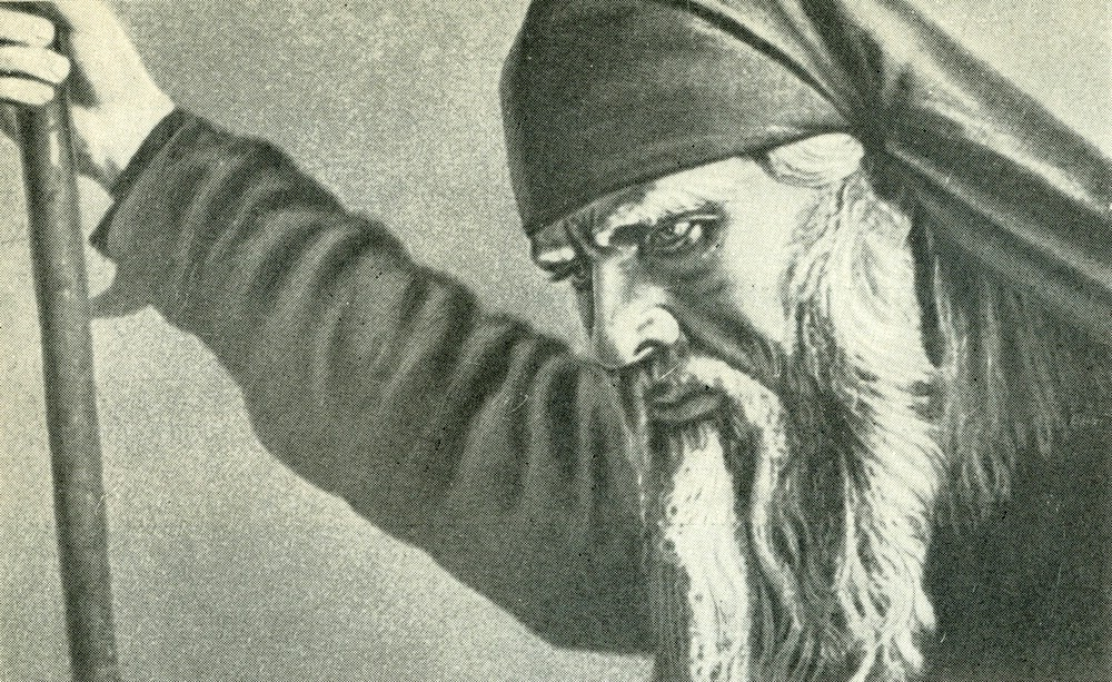 Russian bass, Feodor Chaliapin (1873 - 1938)